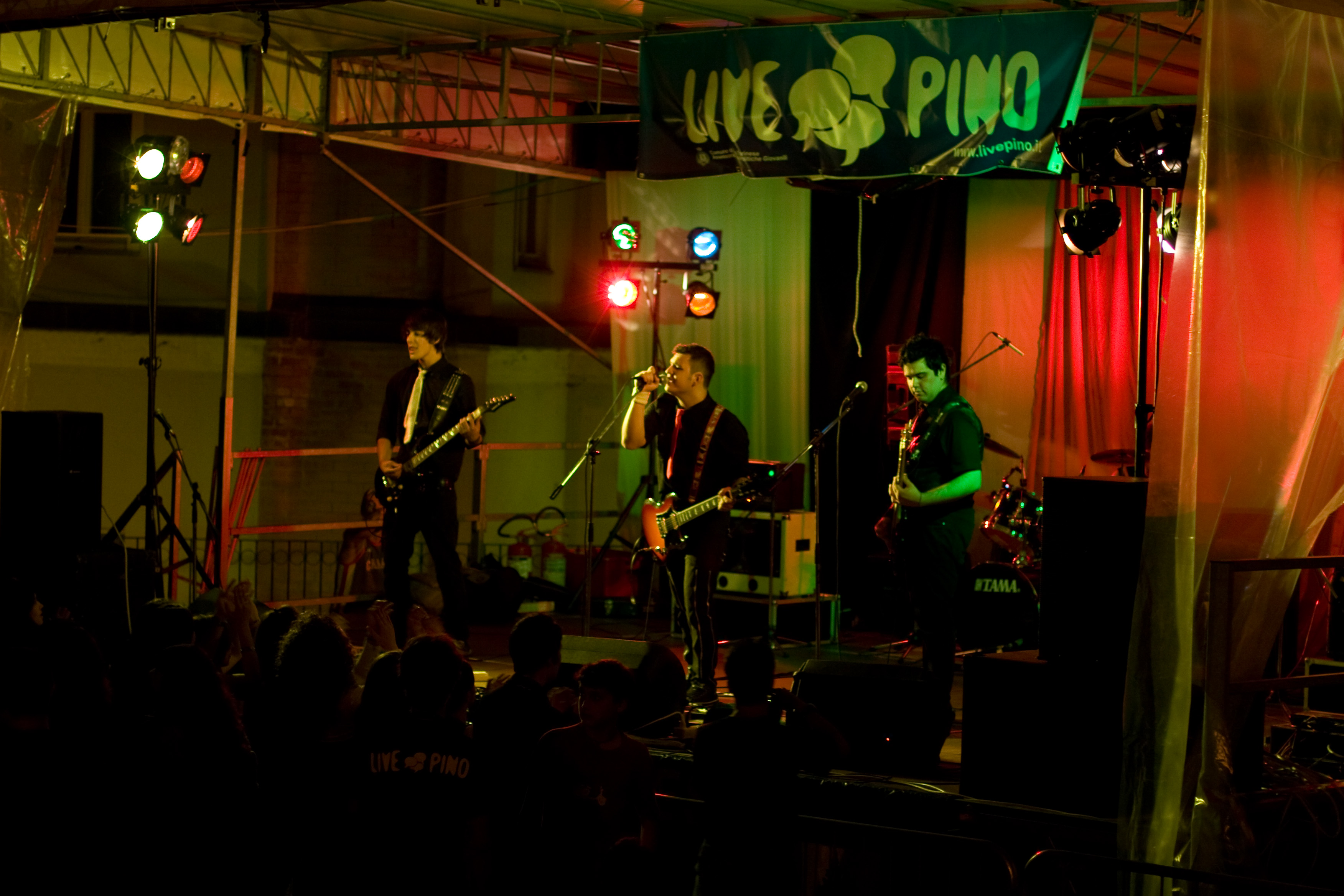 Rock the Pine 2008